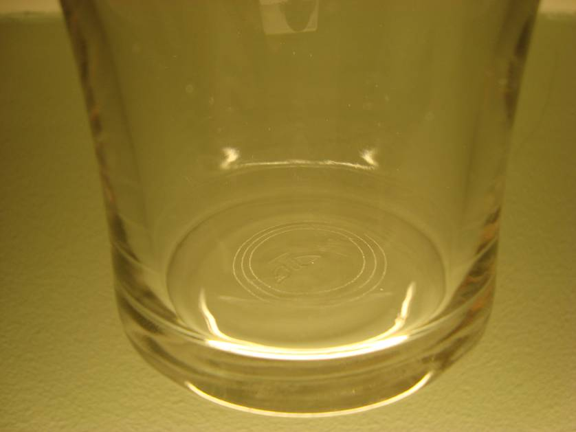 ~600x800pixels; close-up of a laser-etched widget in the base of a pint glass